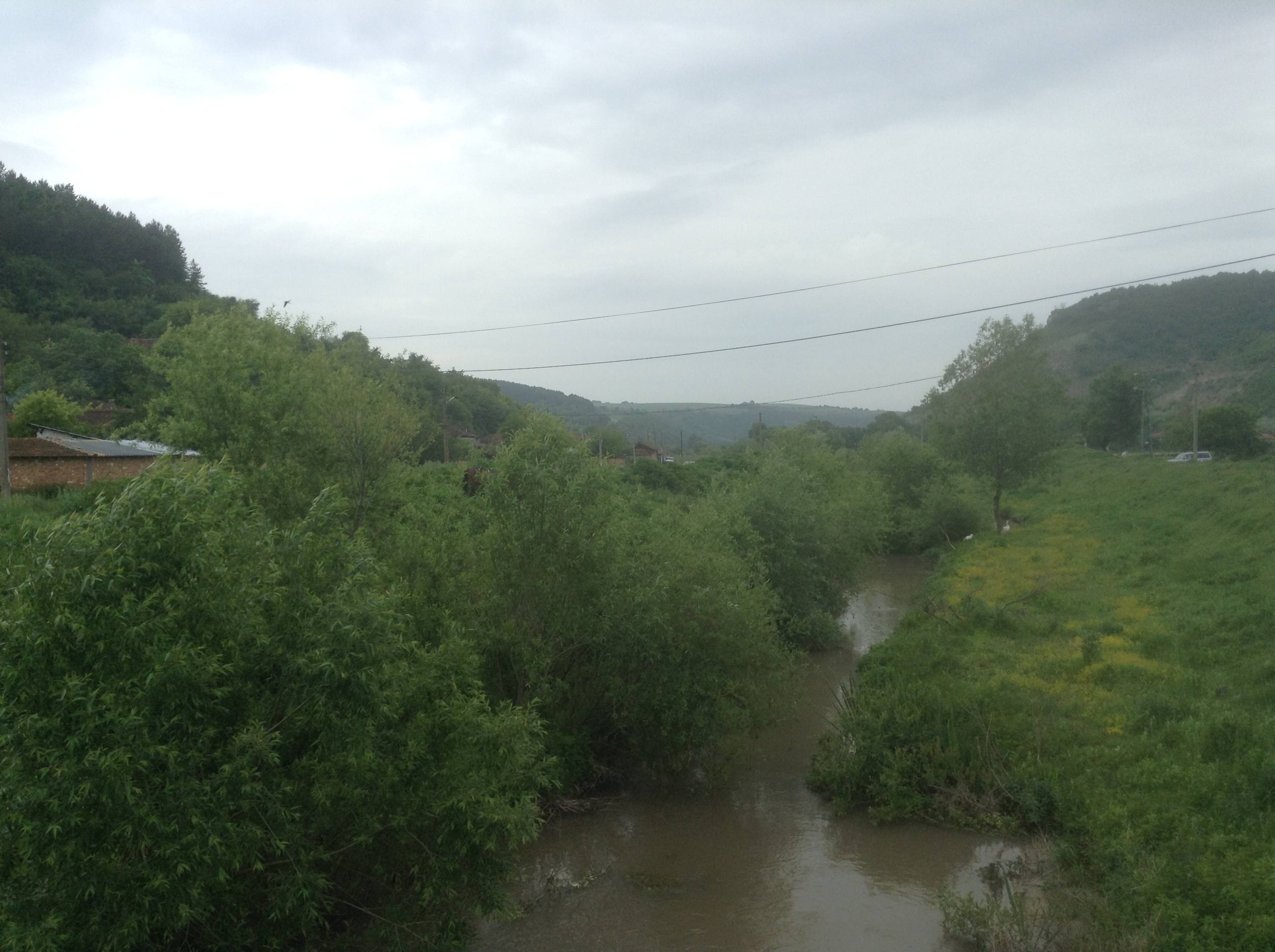 Mali Lom river in village of Svalenik, Bulgaria.